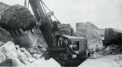 Marion Steam Shovel Model 90, 1908 image showing the shovel at work on the Panama Canal. Image taken from a 1915 Marion Shovel catalog. Company defunct; archives given to Marion Historical Society, Marion Ohio.